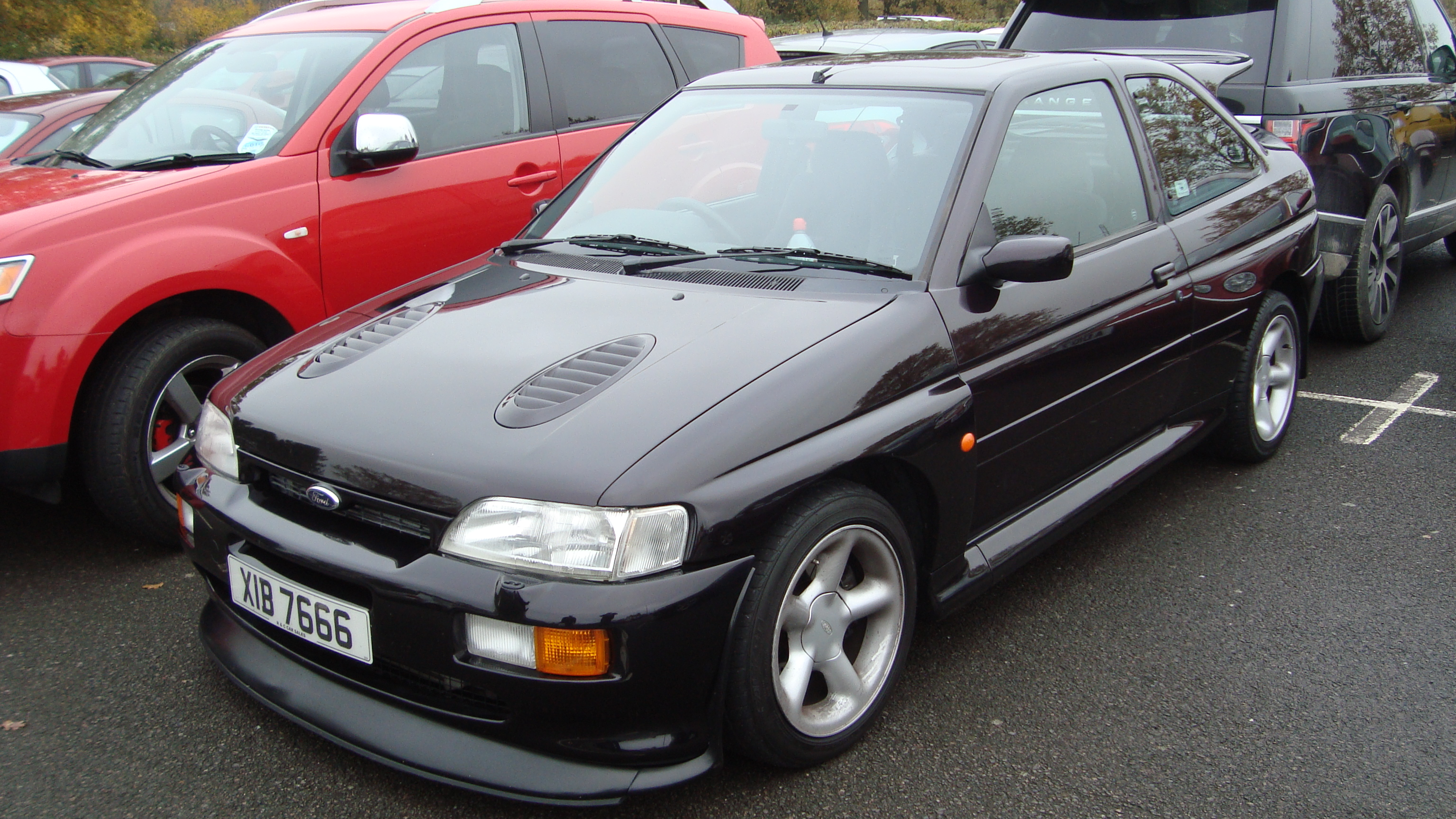 I prefer the Cosworth's built after 1995 because of the more aerodynamic door mirrors taken from the Mk6 Escort